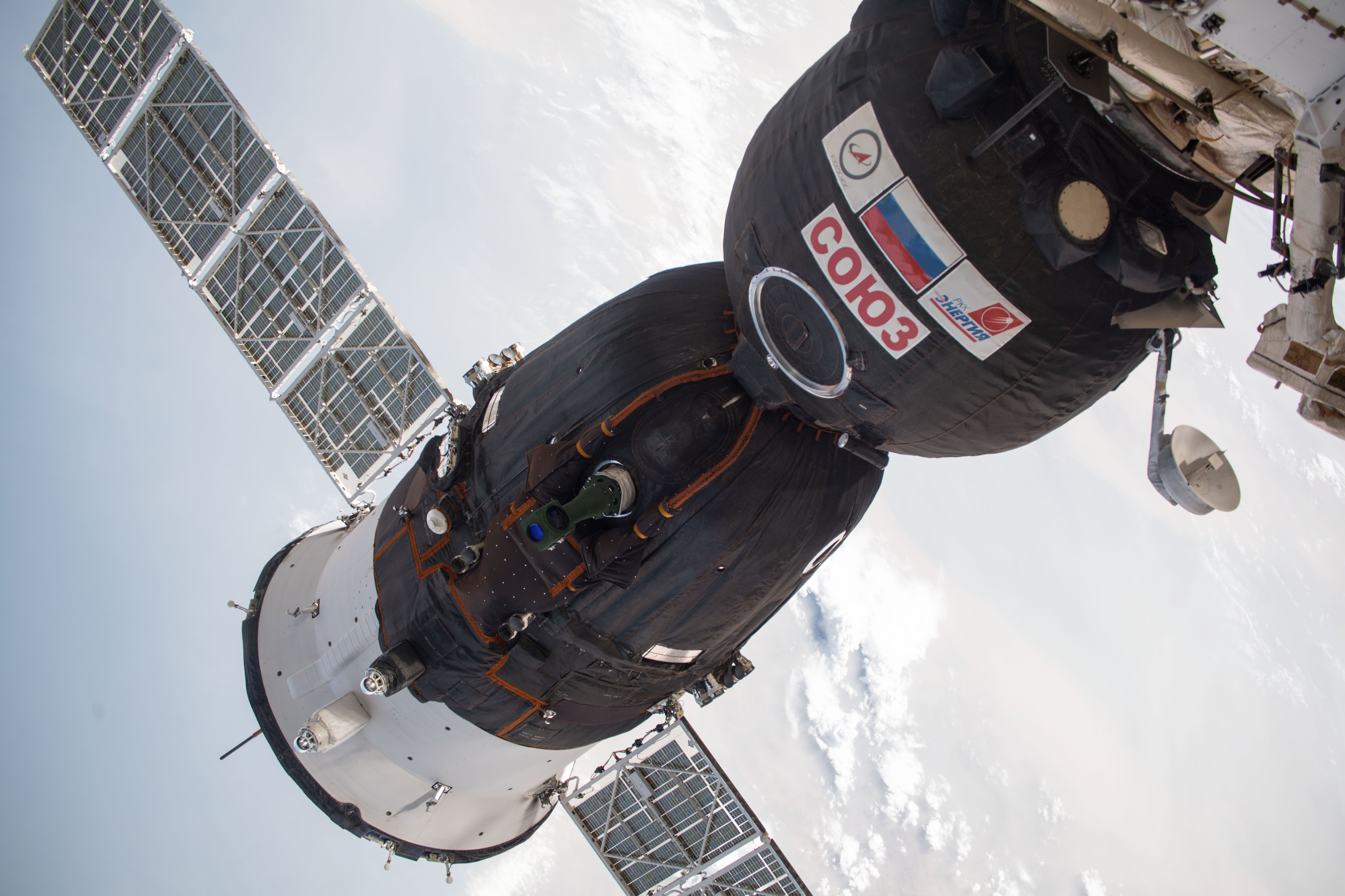 The Soyuz MS-09 spacecraft is pictured docked to the Rassvet module of the International Space Station's Russian segment. The Soyuz MS-09 launched Expedition 56-57 crew members Serena Auñón-Chancellor, Alexander Gerst and Sergey Prokopyev to the station on June 6, 2018 and docked on June 8.